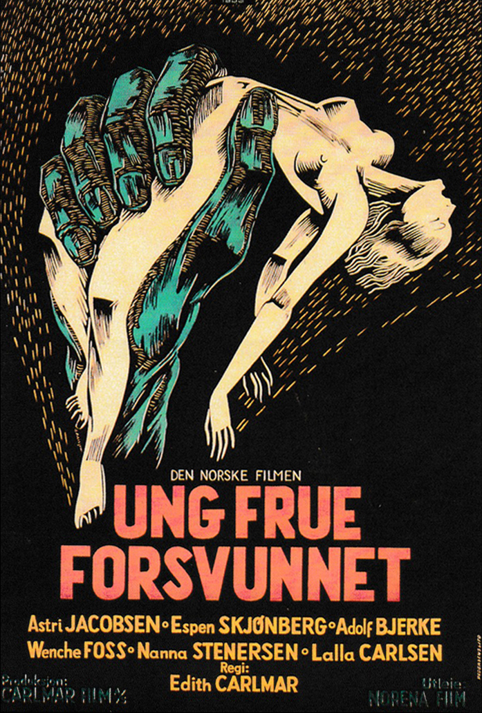 Poster for the Norwegian movie «Ung frue forsvunnet» (young wife missing) by the Russian/Norwegian artist and scenographer Alexey Zaitzow